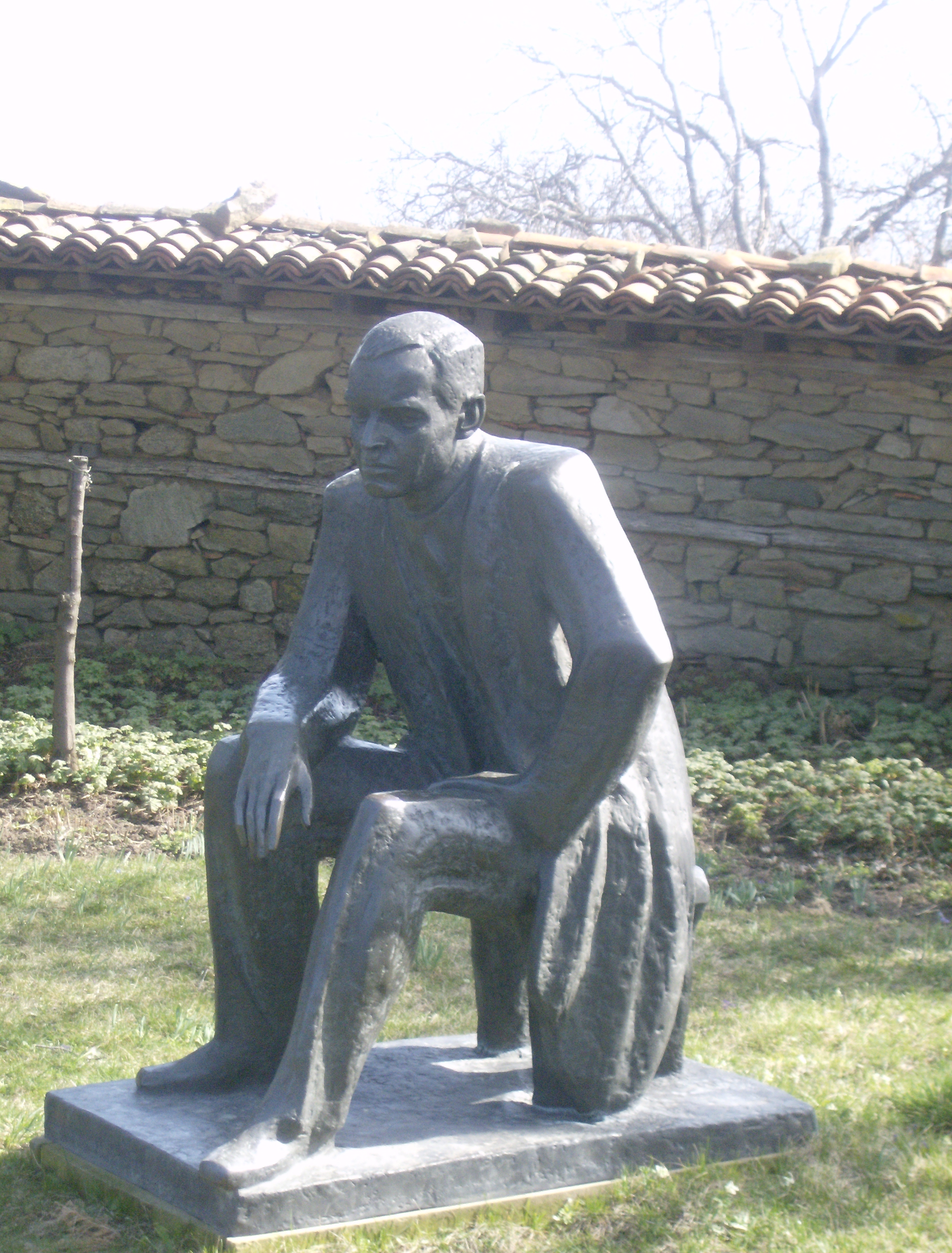 Zheravna